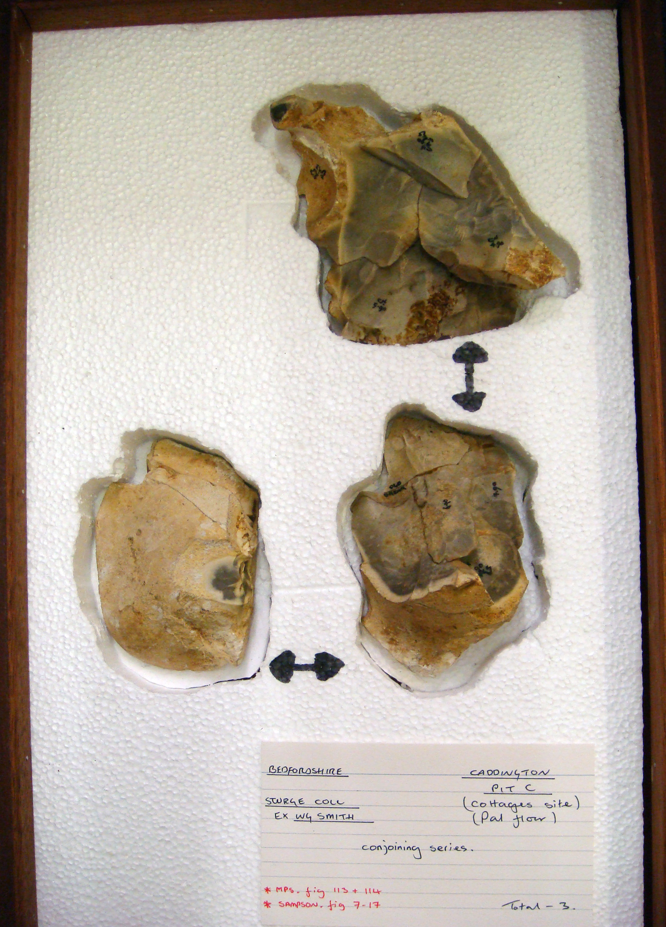 Palaeolithic flints, photo taken at British Museum Wikimedia workshop.